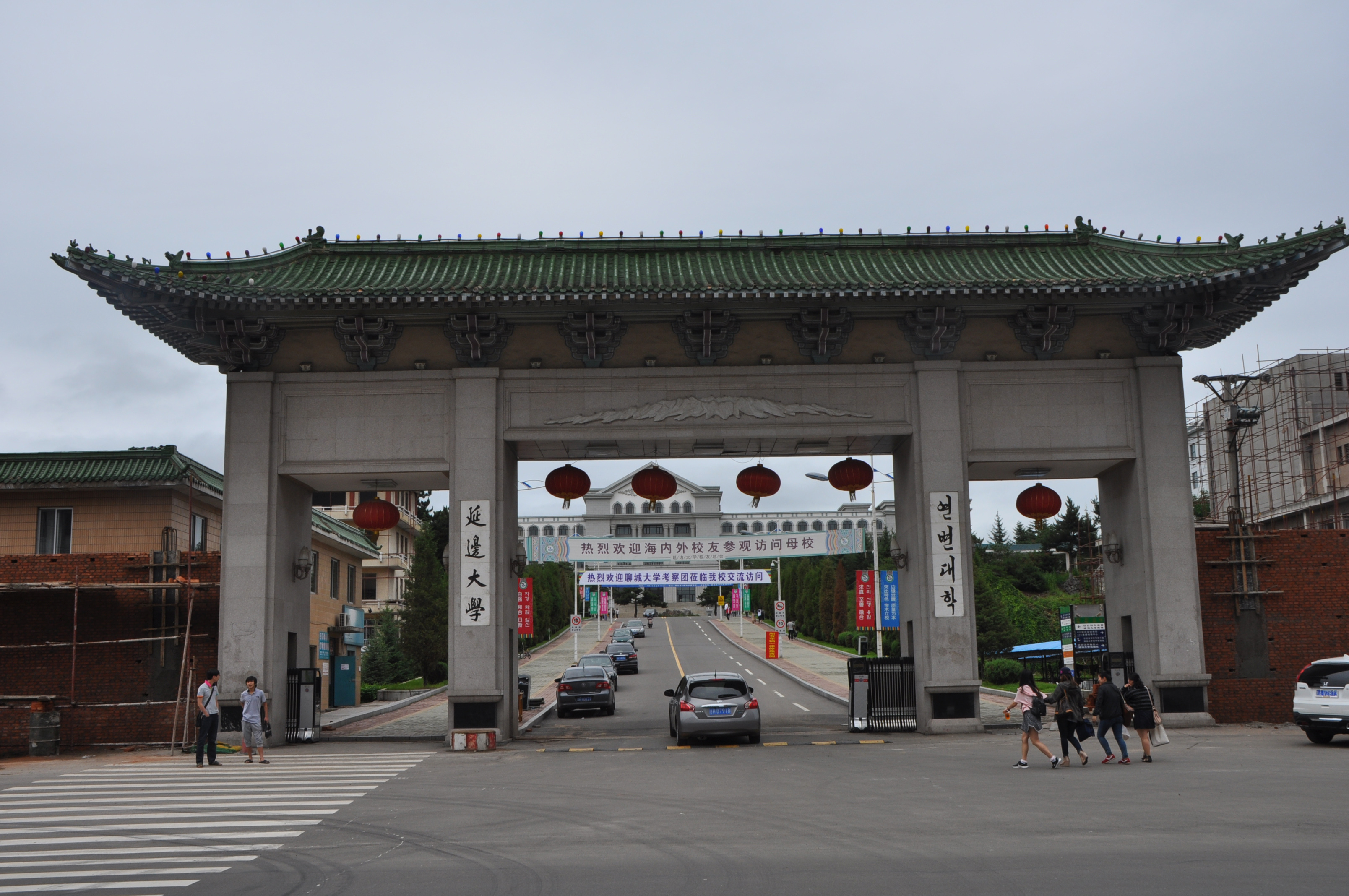 Yanbian University - Main Entrance